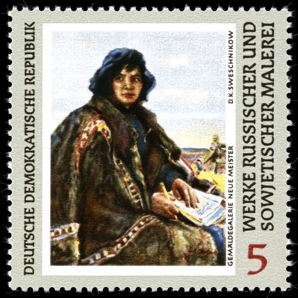 Stamp description / Briefmarkenbeschreibung Ausgabepreis: 5 Pfennig First Day of Issue / Erstausgabetag: 10. Dezember 1969 Auflage: 10.000.000 Entwurf: Naumann und Dutschendorf Druckverfahren: Rastertiefdruck Michel-Katalog-Nr: Ländercode-MiNr: 1528 Licensing This file is most likely NOT in the public domain. It has been marked for review, and will be deleted in due course if the review does not find it to be in the public domain.This file was previously considered to be in the public domain as a German stamp; it is possible that it is in the public domain for other reasons, in which case a new rationale will be applied as part of the review process. See below for the previous rationale. Previous public domain rationale, no longer applicable This stamp is in the public domain in Germany because it was released by the postal administration of the German Democratic Republic or the Soviet occupation zone (Deutschen Post der DDR) whose legal successor is the Federal Republic of Germany. Thus it is an official work according to German copyright law (§ 5 Abs. 1 UrhG).